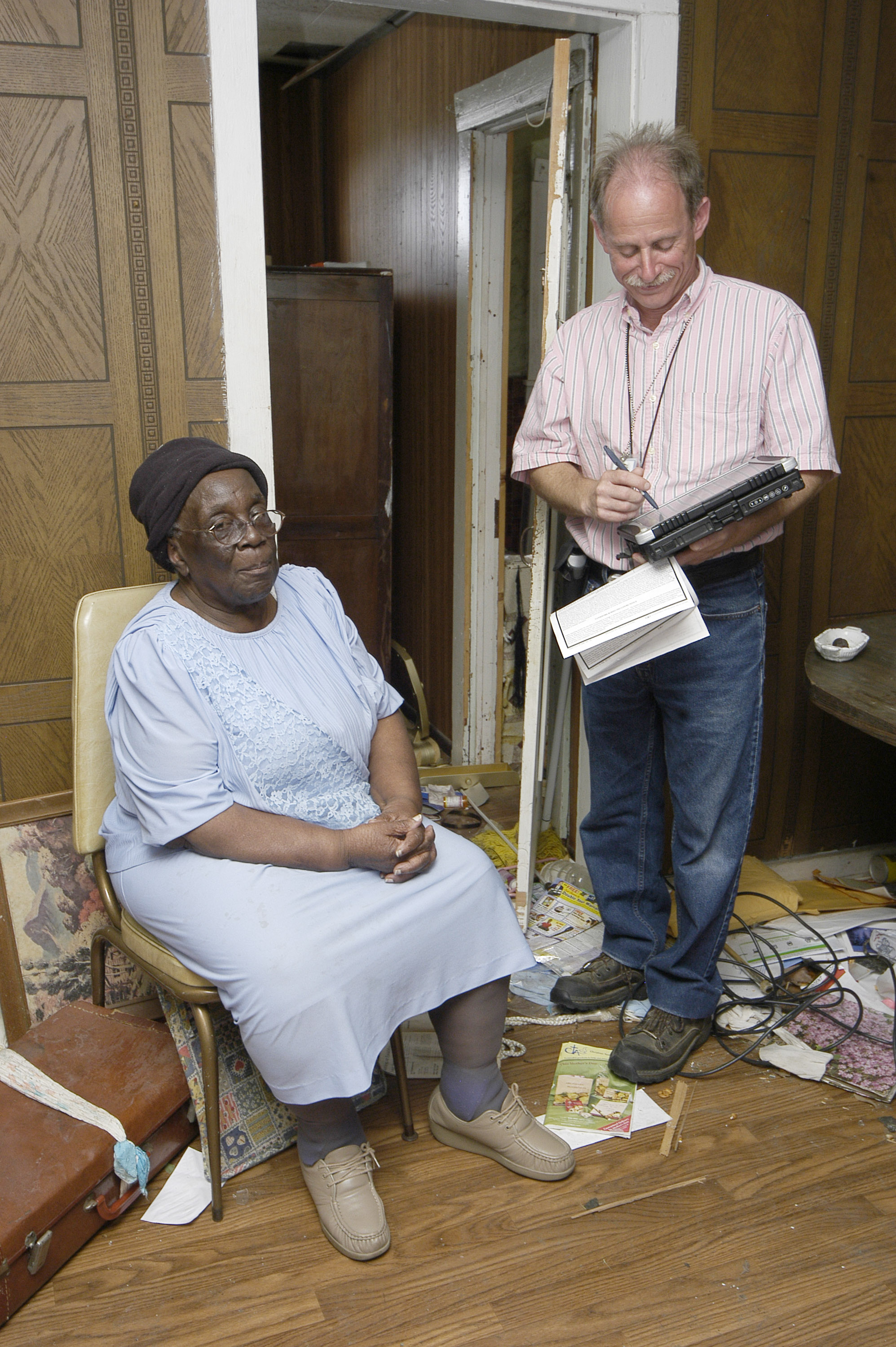 Caruthersville, MO. 4-13-06 Herb Cohen, a Home Inspection contractor for FEMA checks on the status of Olga King's home which was damaged by the tornado that hit the town. Mrs. King was in her house when the tornado hit. FEMA is working with local and State agencies to assist with the recovery effort. Photo by Patsy Lynch/FEMA